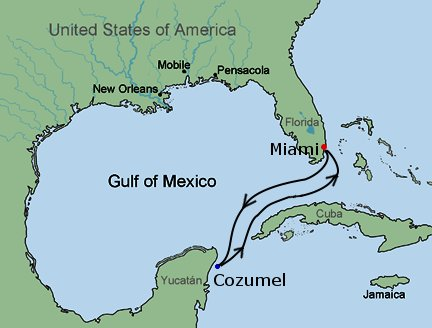 Map of the Gulf of Mexico showing the route of the majesty of the seas at the 70000 Tons of Metal Festival